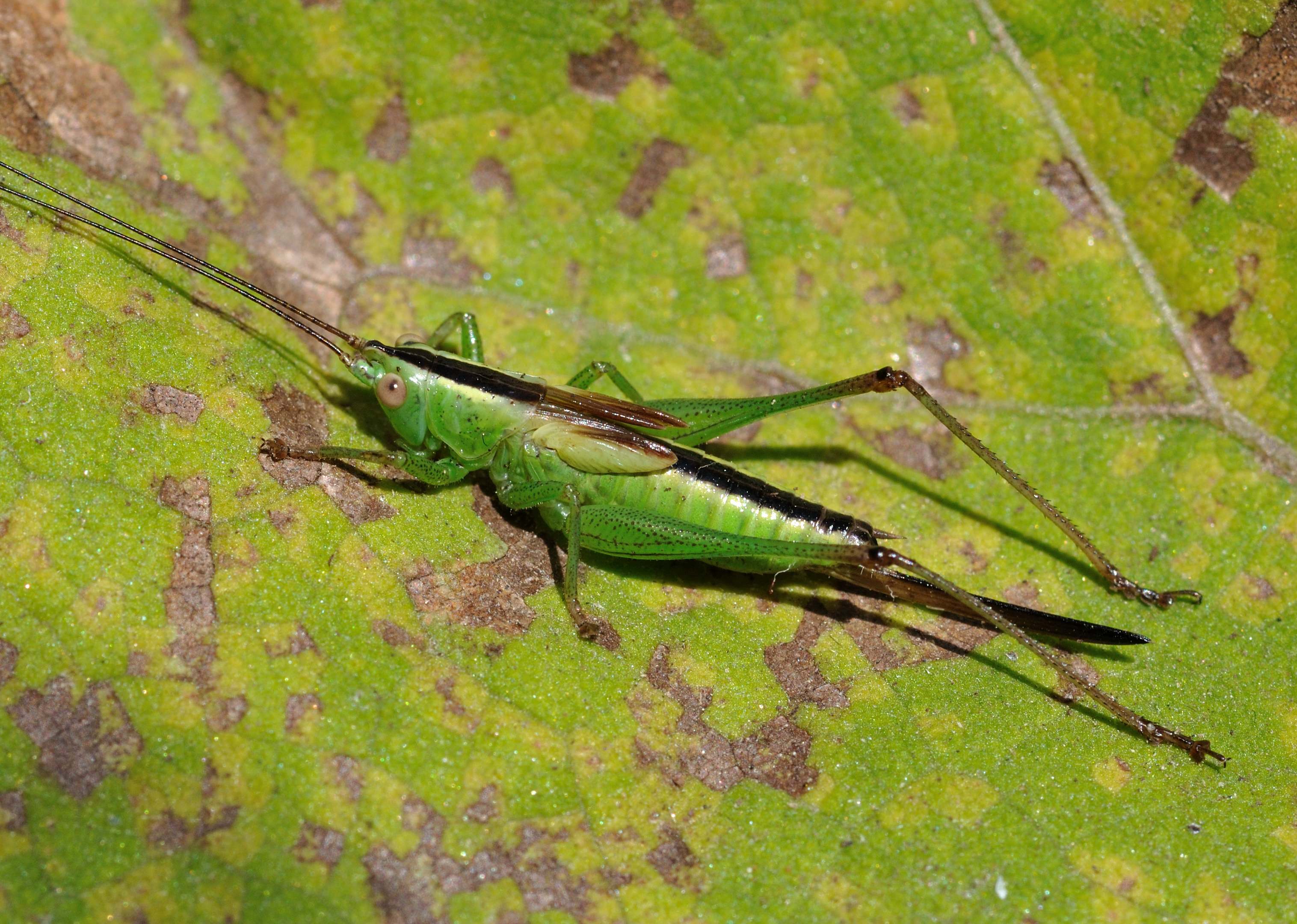 Female nymph of a Long-winged Conehead (Conocephalus fuscus) in Frankfurt, Germany.